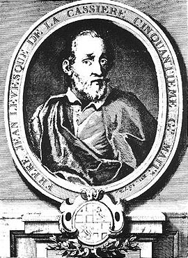 Jean de la Cassière (1502-1581)